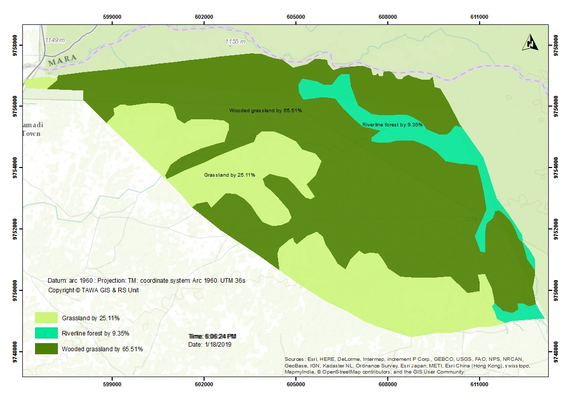 Kijereshi Game Reserve Vegetation map as per FAO landscape categories